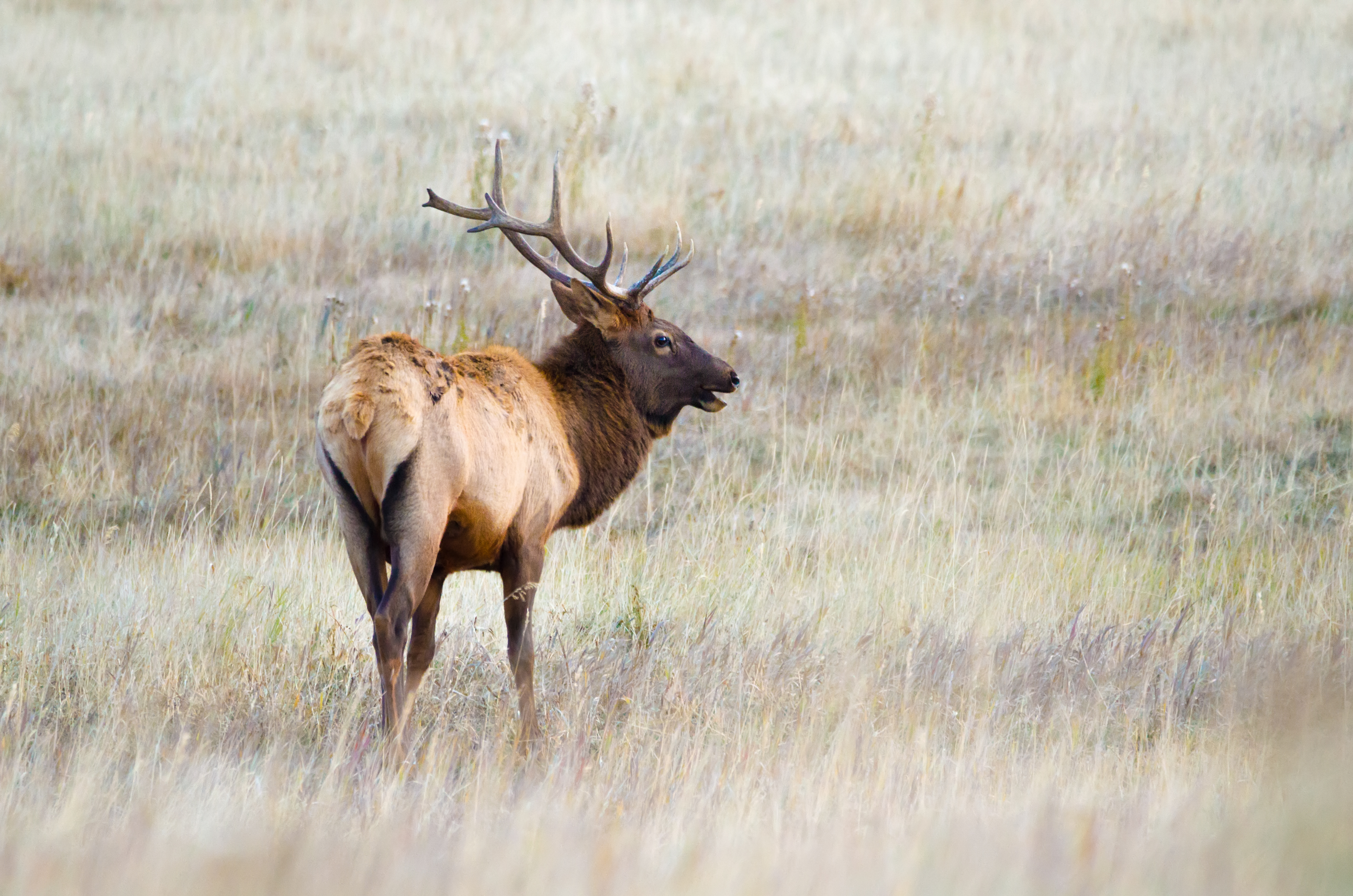 Elk in Banff National Park, Canada